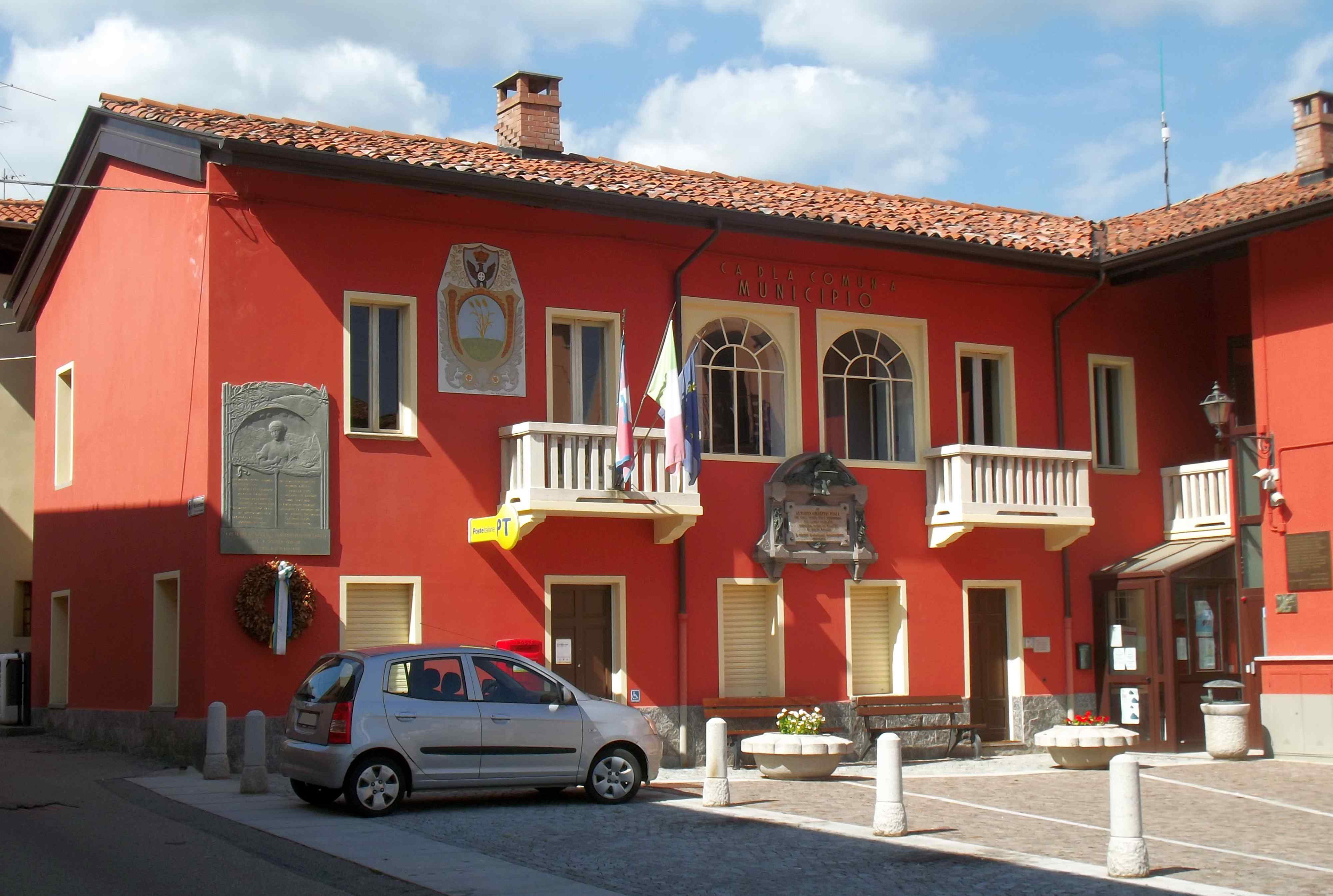 Miagliano (BI, Italy): town hall